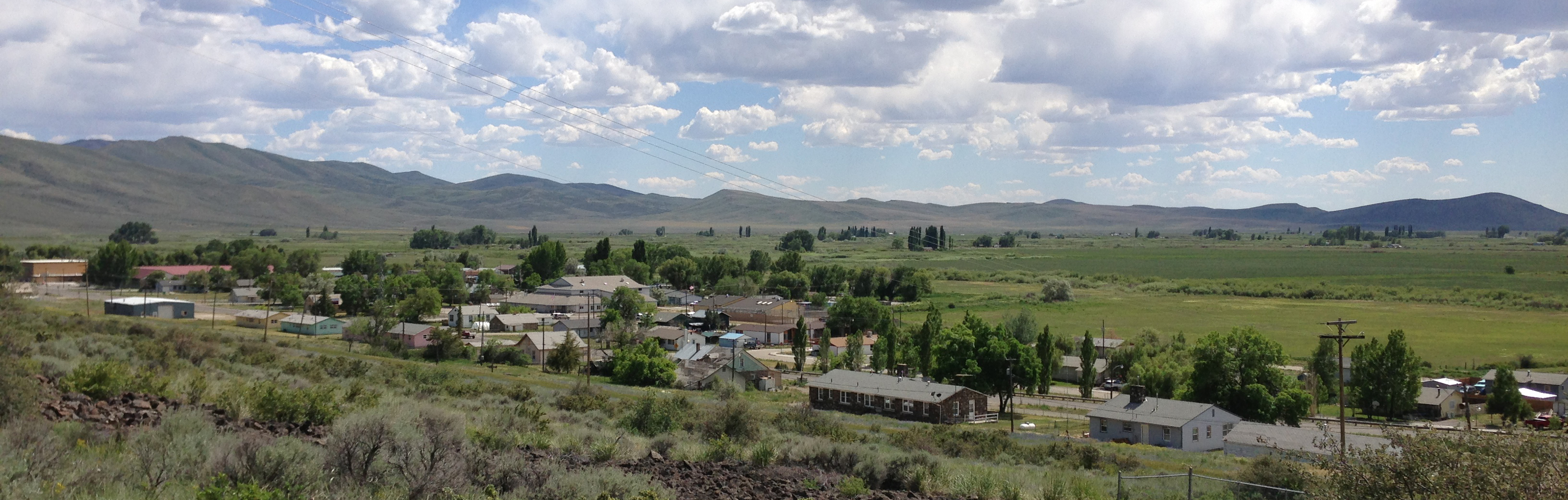 View of central Owyhee, Nevada from the north